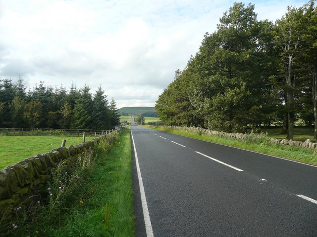 The A616, Dunford The road passes the end of a shelter belt of trees on the right, whilst there is a recent plantation on the left, on Low Moor. Ahead the road drops 20m to cross the valley of the River Don, and then starts a long climb to the summit at Victoria.